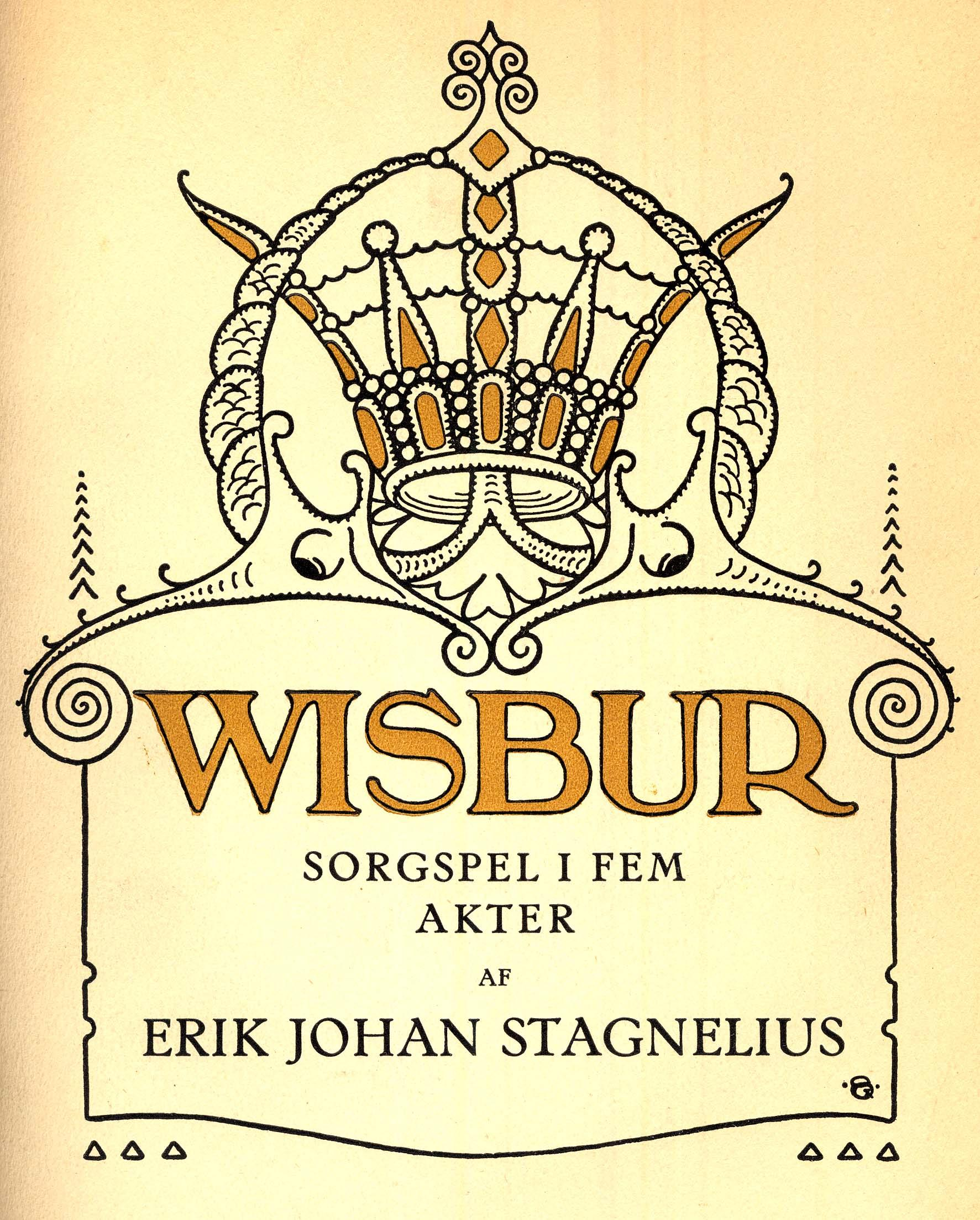 Cover of hard bound play by Stagnelius about legendary King WisburPlace: Sweden